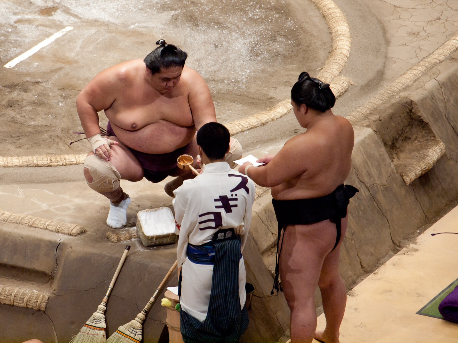 A wrestler (probably in the Jūryō division) holds chikara-mizu (power-water) in his mouth, on the day 12 of 2010 September Grand Sumo Tournament. Olympus E-30